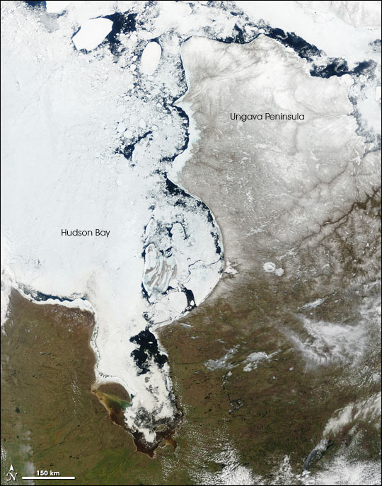 Satellite image of Hudson Bay, Canada, in late spring.